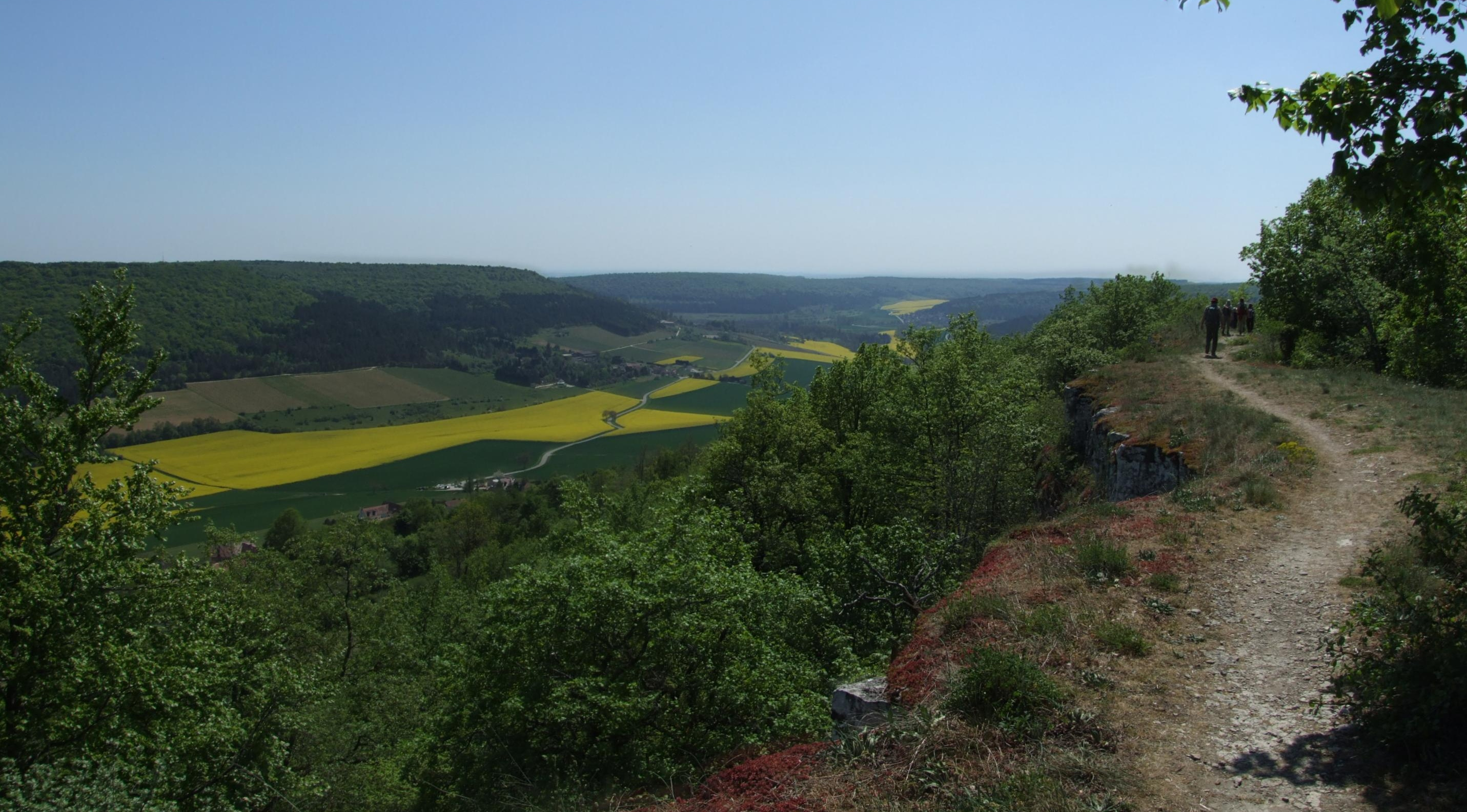 Panorama from Vergy Mount (on Reulle-Vergy, Curtil-Vergy and L'Étang-Vergy), Côte-d'Or, Burgundy, France. Looking due south from the south-west side of the top of the mount, at about 500 m alt. The houses on the left are Curtil-Vergy, crossed by the D116 road. 1 km further is Segrois ; 800 m behind Segrois, the buildings of Beveys farm. They sit at the foot of Villars Mount (491 m alt.), with the village of Villars-Fontaine just behind the Beveys farm but hidden by trees and by the curb of Villars Mount. At the back, just in front of the last yellow field (rape seed), the little town of Meuilley. The ruins of Saint-Vivant abbey are in front of us, towards the end of the top of Vergy Mount and below some (about 450 m alt.). The ruins of Vergy castle are behind us, at about 510 m alt.